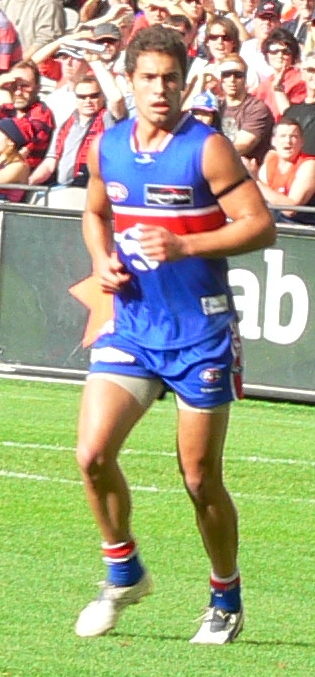 Daniel Giansiracusa, AFL player